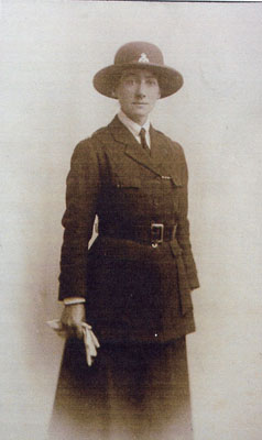 Clara Lambert suffragette and women police woman guess 1916